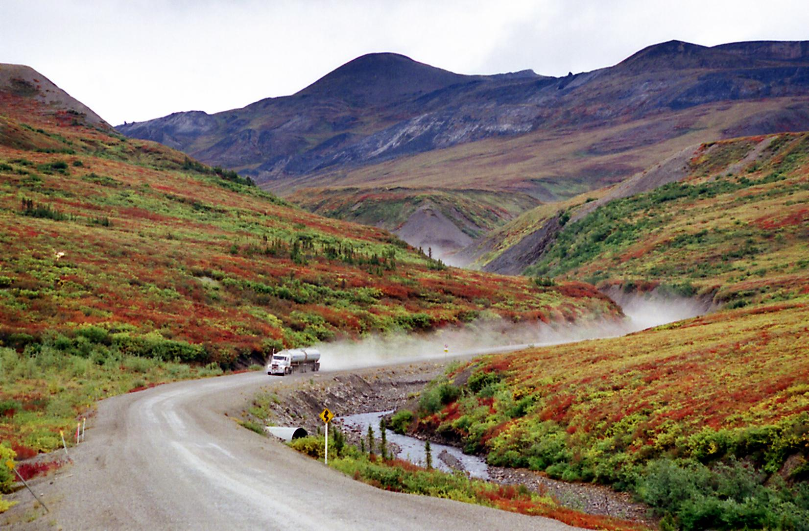 Truck winding through the Richardson Mountains in NWT